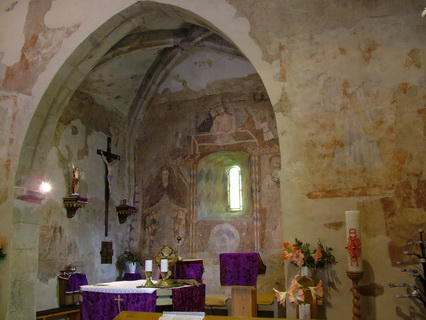 Church of Bátonyterenye, Maconka. The sanctuary.